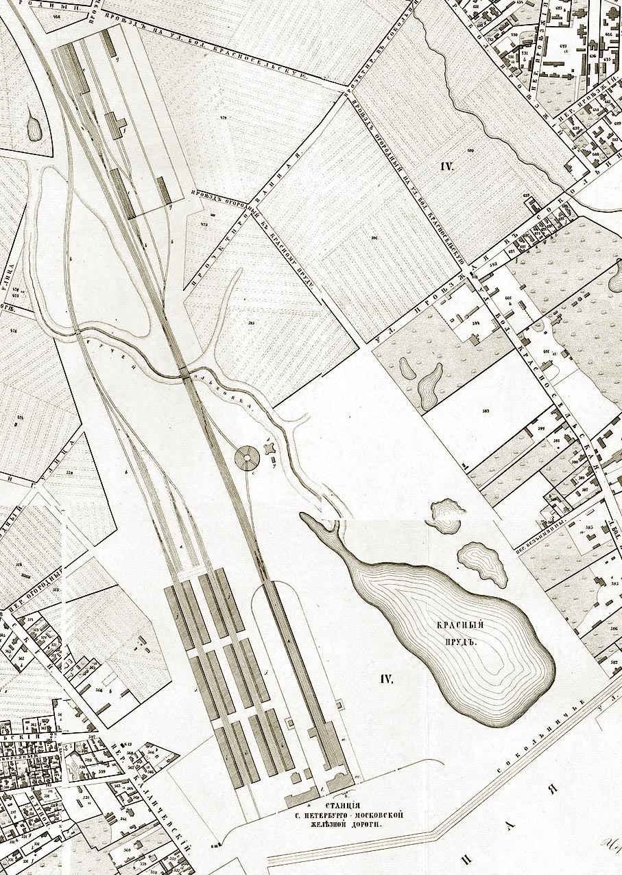 Map of first rail terminal in Moscow, Russia (present-day Leningradsky Terminal), from 1853 Khotev's Atlas of Moscow